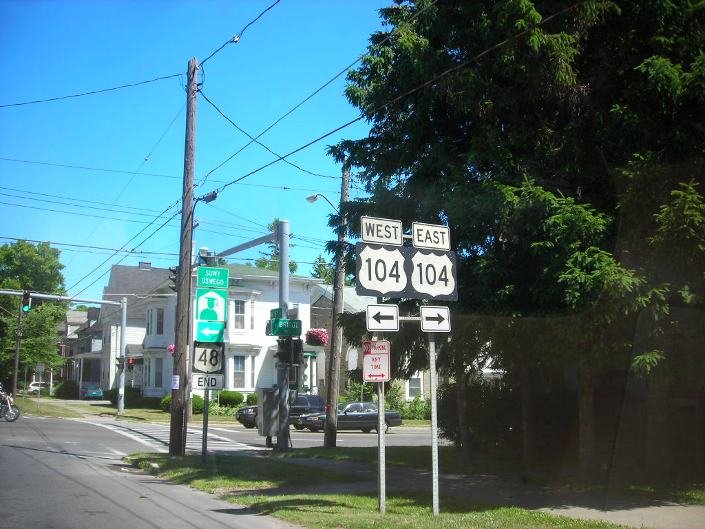 Northern terminus of New York State Route 48 at New York State Route 104 in Oswego. The U.S. Route 104 shields likely date back to when NY 104 was US 104.